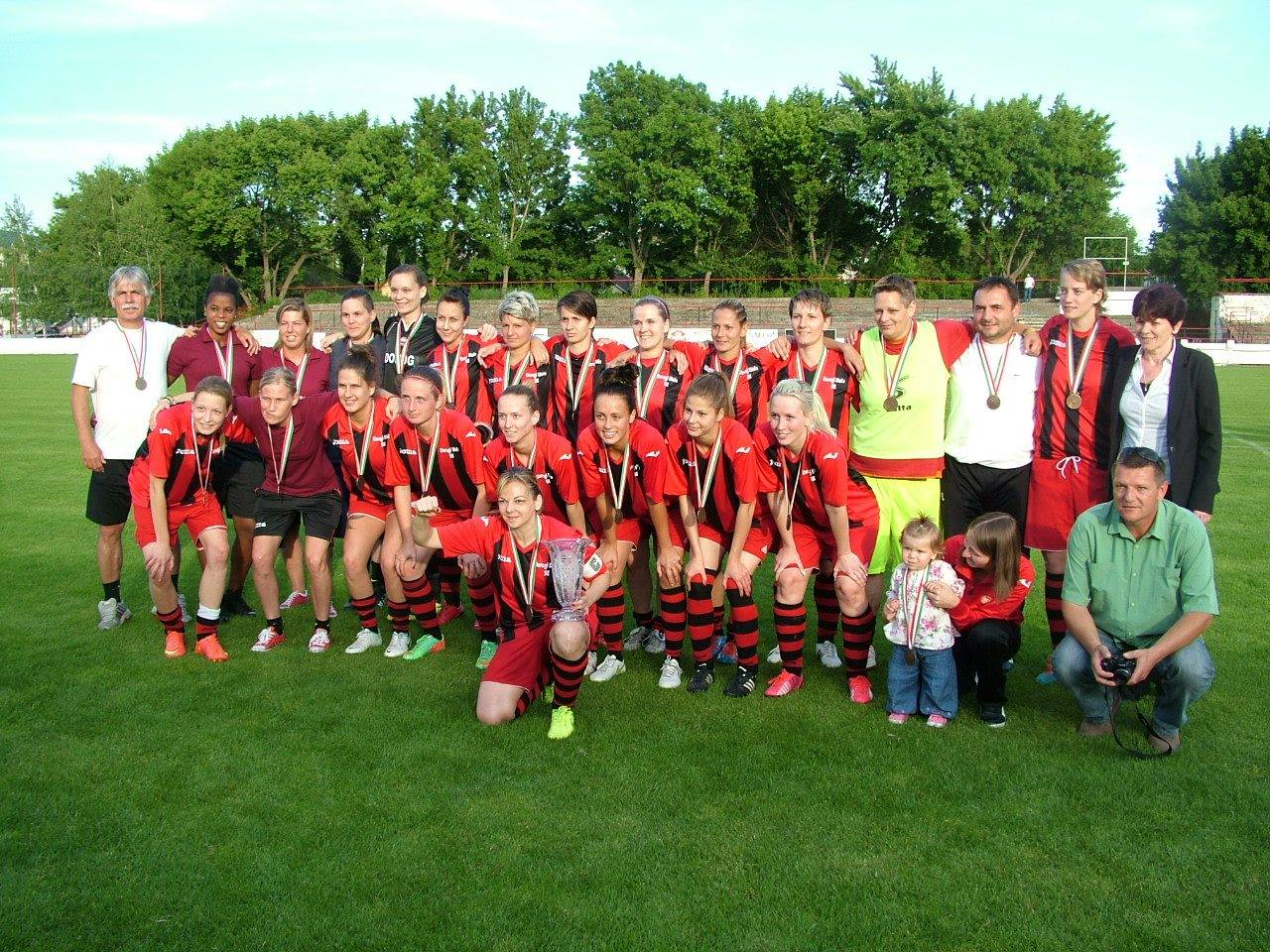 Ladies won the bronze medal of the first class division in 2015